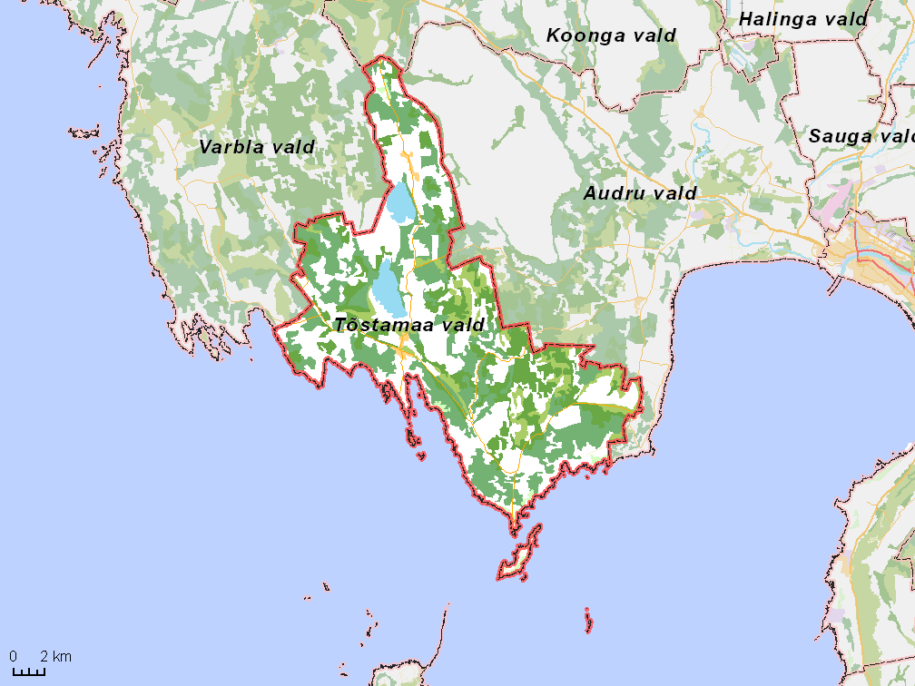 Map of municipality in Estonia